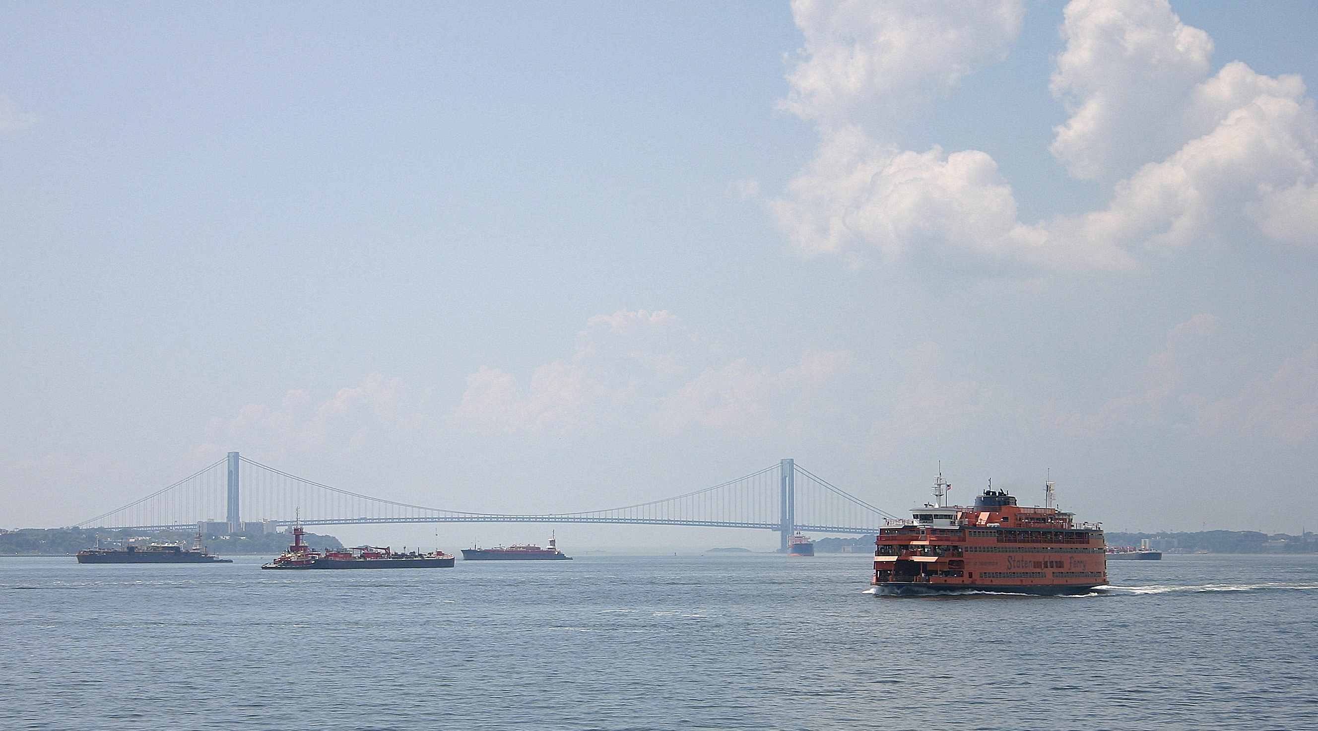 Staten Island Ferry (in front of Verranzano-Narrows Bridge, New York)